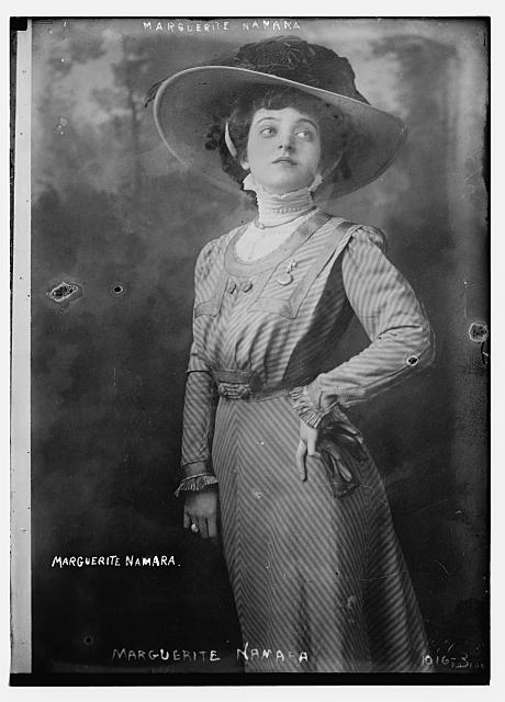 Actress Marguerite Namara in her early career